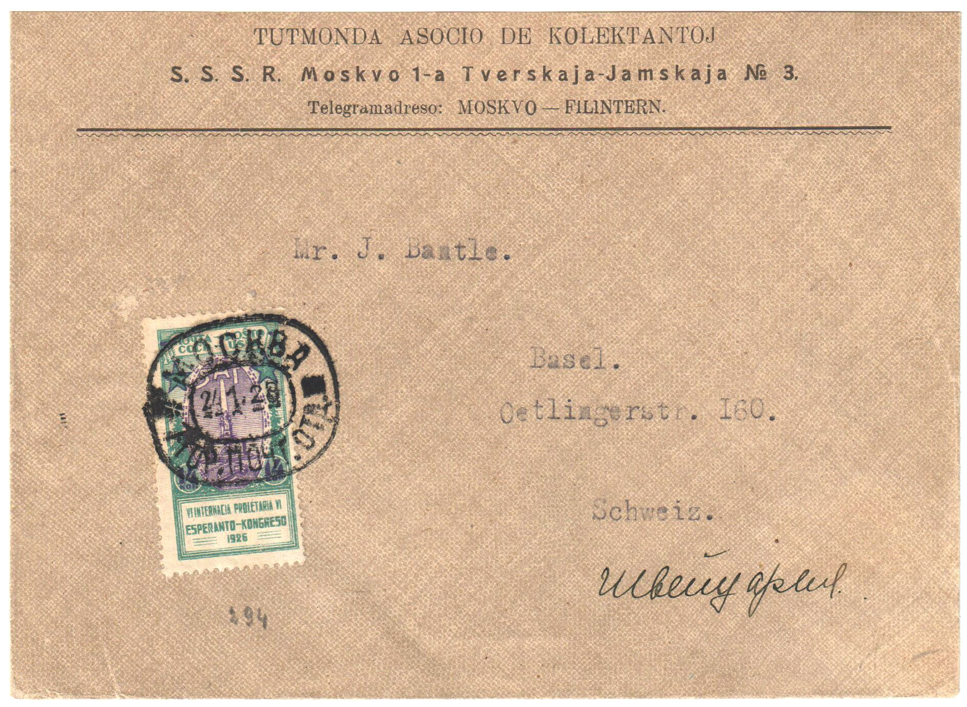 USSR 1928-01-24 Esperanto cover sent from the World Association of Collectors "FILINTERN", Moscow to Basel. See also article in Yamcik-Post Rider by Jeffrey J. Klein, nr. 40 1997. The cancel is an unusual oval in black and reading 'MOSKVA 1 GOR. POCHT. OTD. 24.1.28'. 14kop 1926 issue of the 6th International Congress of Esperanto in Leningrad. Catalogue: CPA 244, Sc. 348, Mi. 312A.